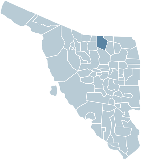 Locator map of the Municipality of Cananea — Sonora.